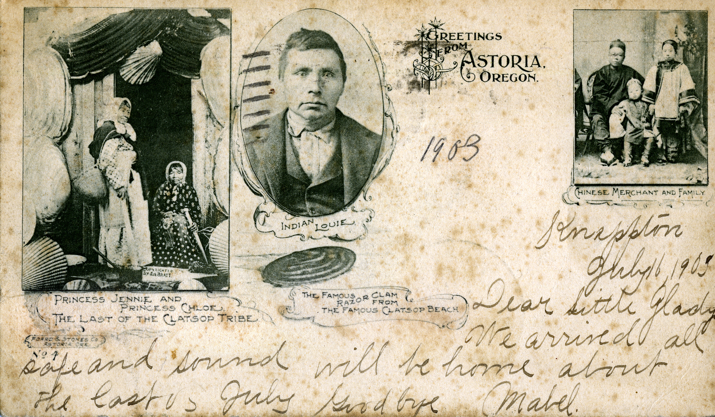 No known copyright restrictions. Please credit UBC Library as the image source. For more information, see Creator:Unknown Publisher: Forrd & Stokes Co. Date: [ca. 1903] Description: Depicts four separate images, respectively captioned: ""Princess Jennie and Princess Chloe, The Last of the Clatsop Tribe""; ""Indian Louie""; ""The Famous Razor Clam from the Famous Clatsop Beach""; and ""Chinese Merchant and Family"" Sent from Mabel to Gladys Source: Original Format: University of British Columbia Library. Chung Collection. Permanent URL